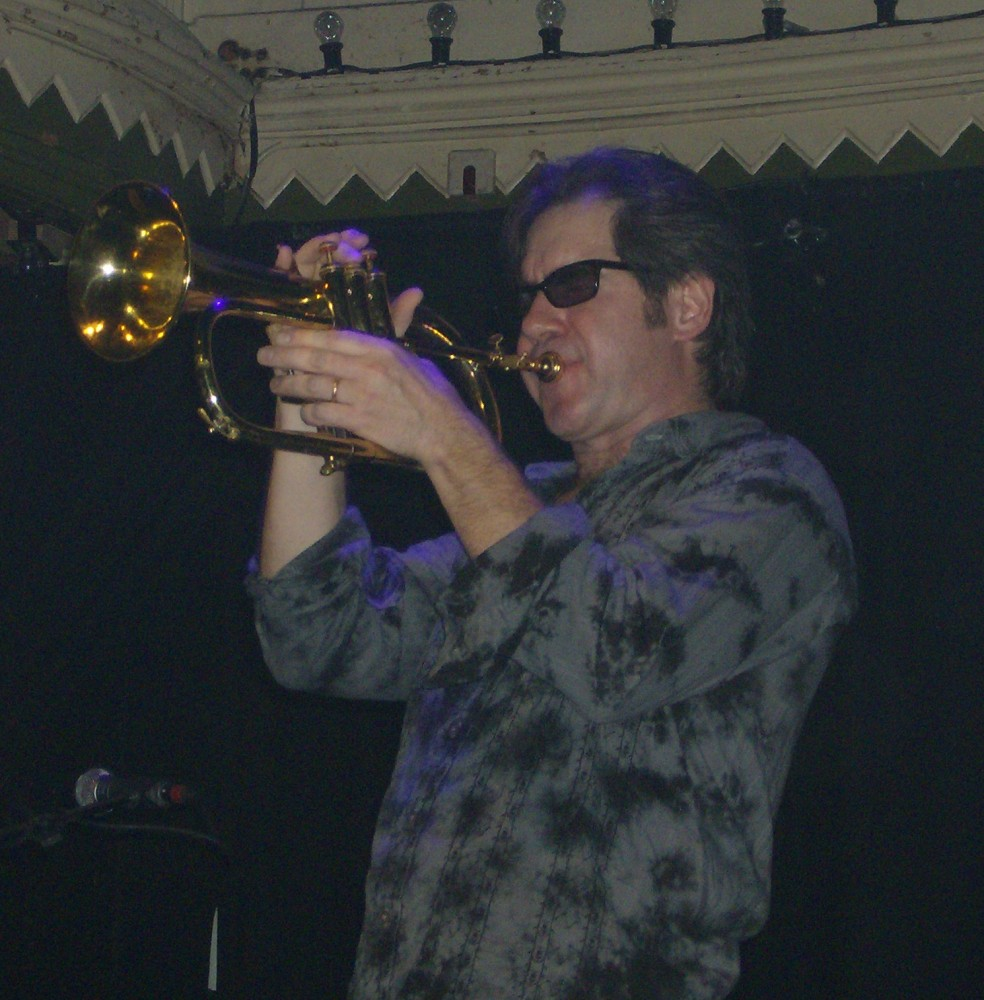 Chris Anderson, trumpetist with Southside Johnny and the Asbury Jukes, live in Amsterdam, October 14, 2006